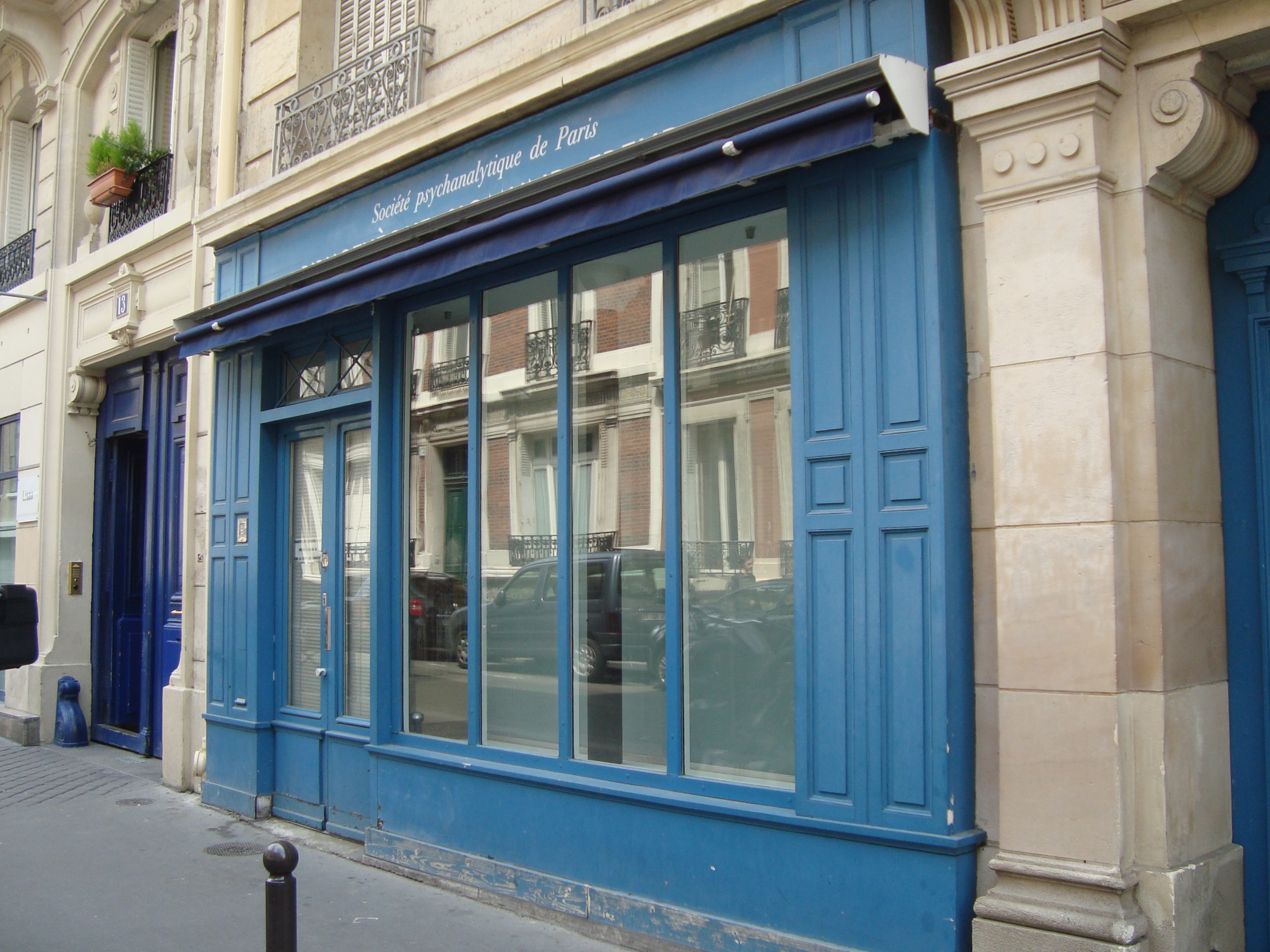 The société psychanalytique de Paris at 15 rue Vaquelin